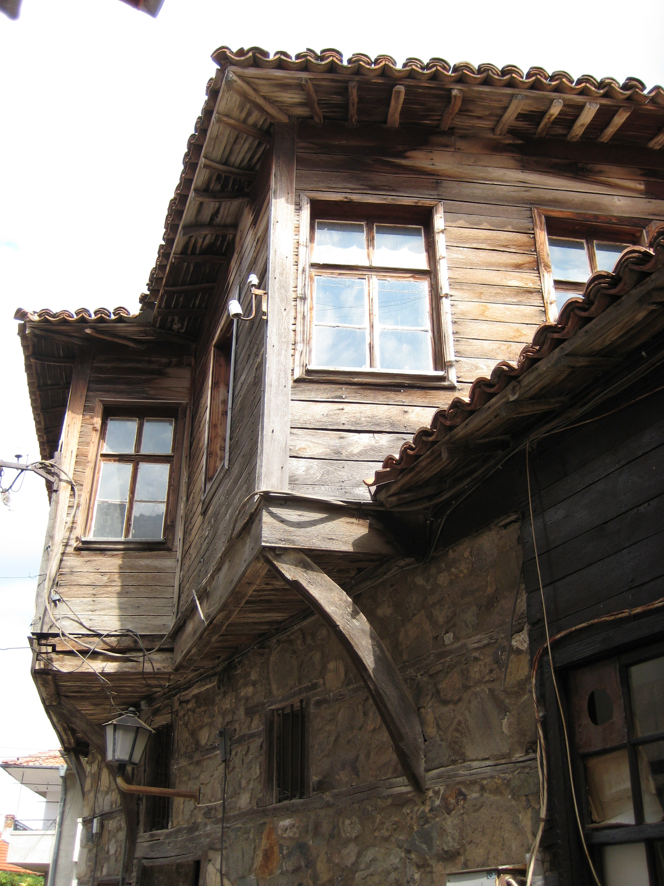 a typical old house in bulgaria